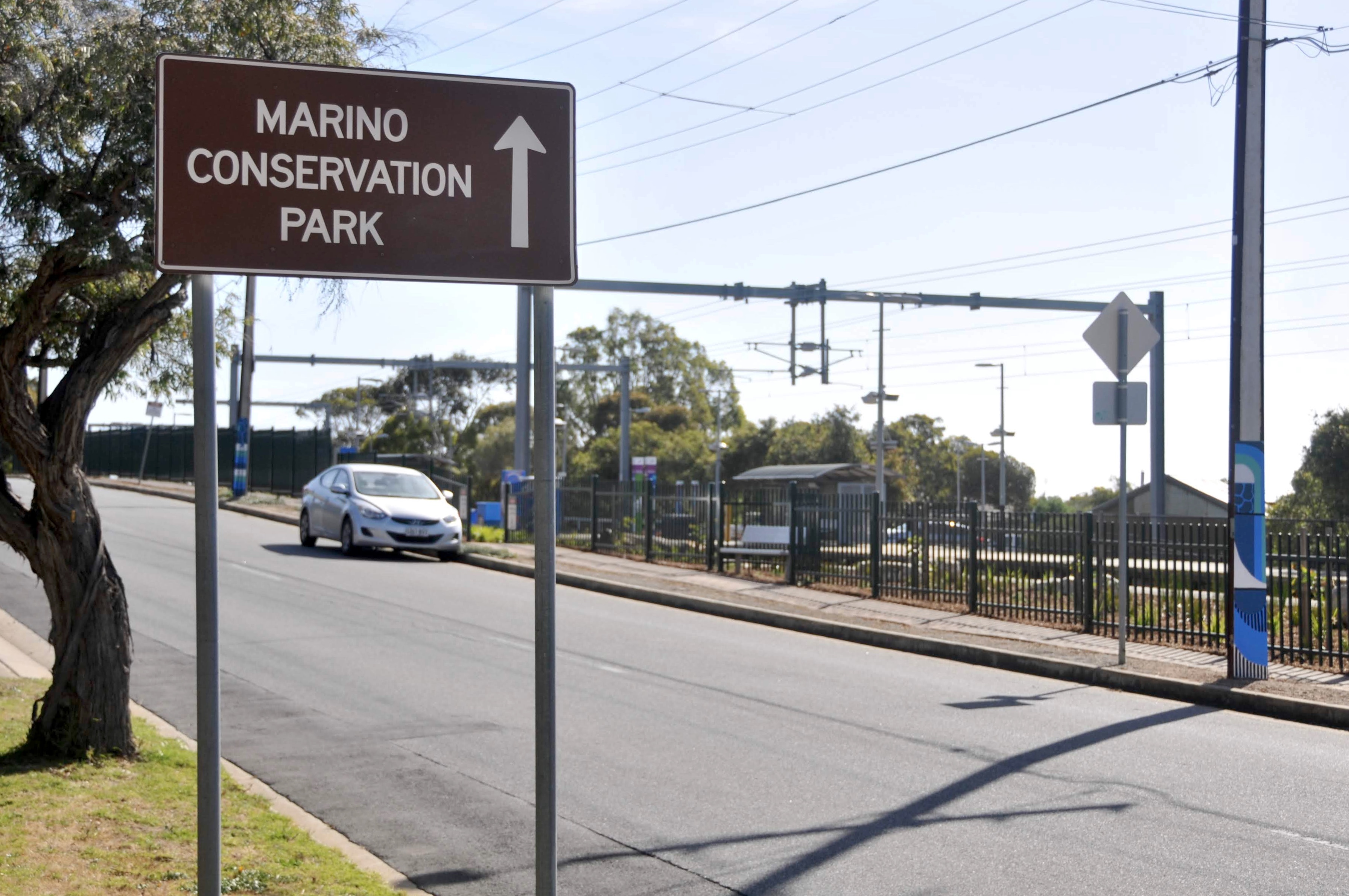 A short walk into Marino Conservation Park from Marino Rocks station.